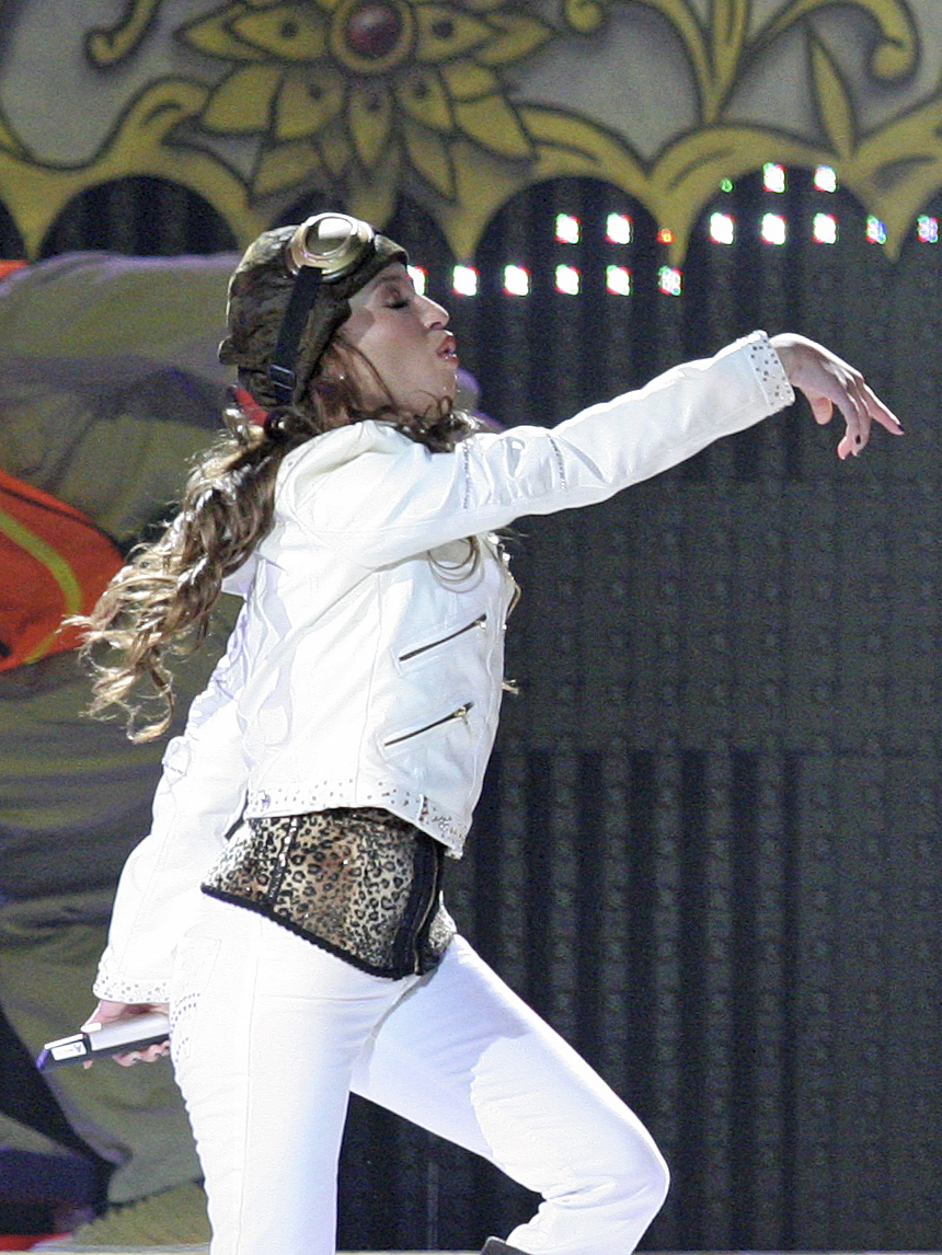 The Cheetah Girls, during their "One World" Tour